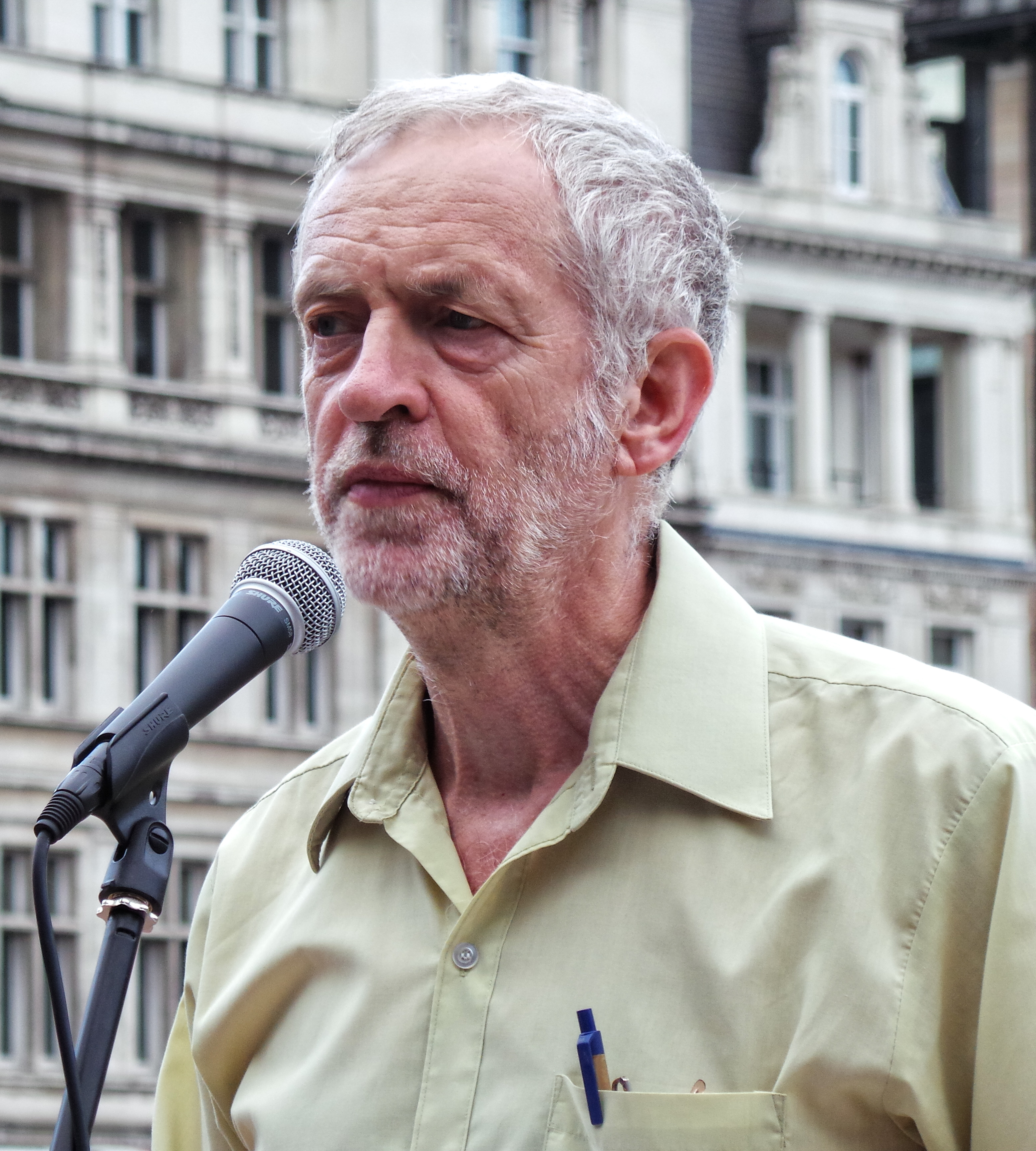 Jeremy Corbyn at the No More War event at Parliament Square in August. A Creative Commons stock photo.